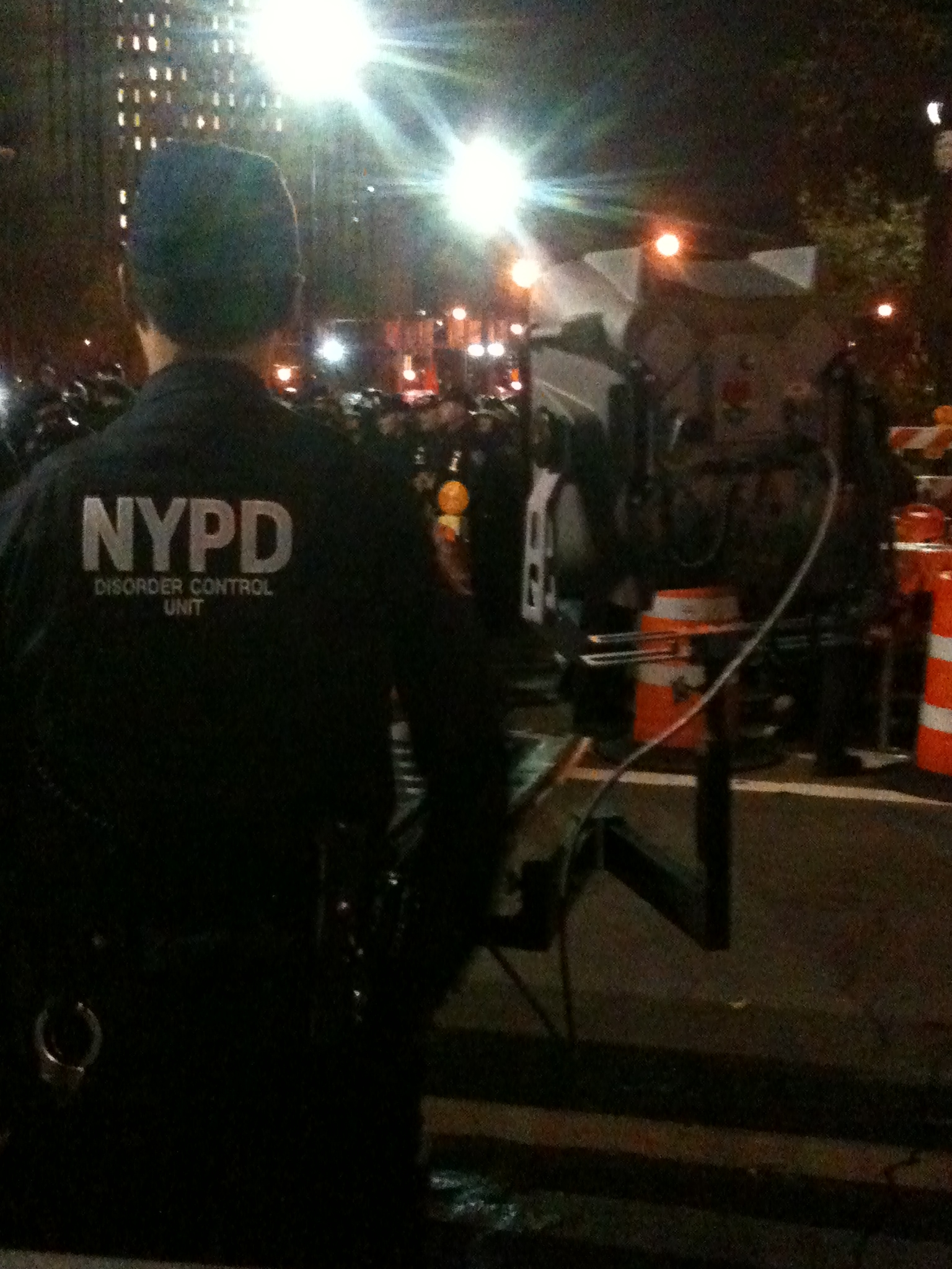 A New York City Police officer of the Disorder Control Unit stands ready with the Long Range Acoustic Device (LRAD) model 500X at an Occupy Wall Street protest on November 17, 2011 near the city hall.